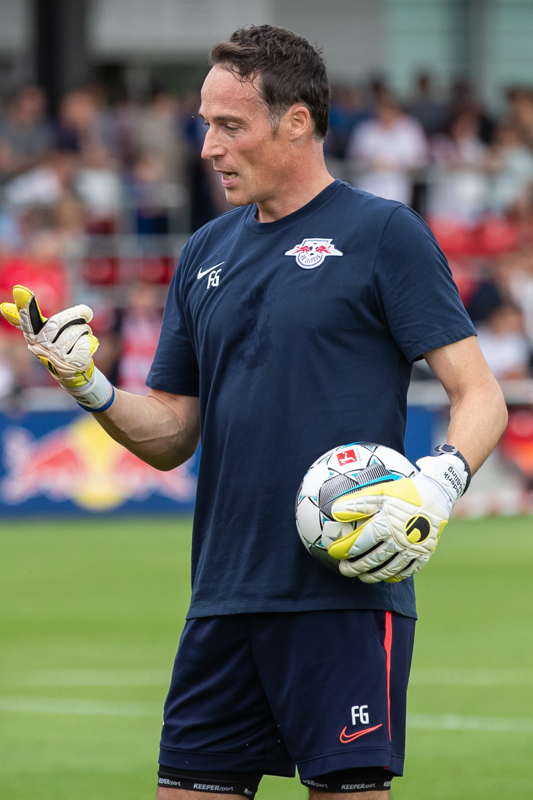 trial and friendly soccer match RB Leipzig vs. FC Zürich 2019-07-12; Frederik Gößling (RB Leipzig, Torwart-Trainer, goalkeeper coach)